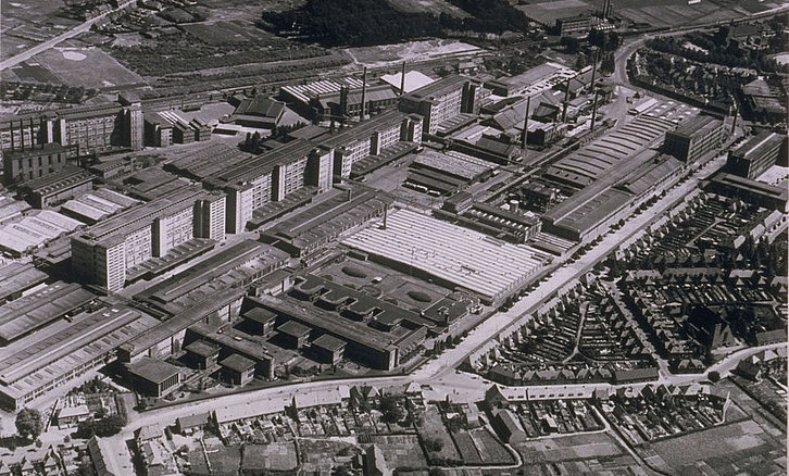 Philips factory Strijp works in Eindhoven seen from the air in the 1930s.